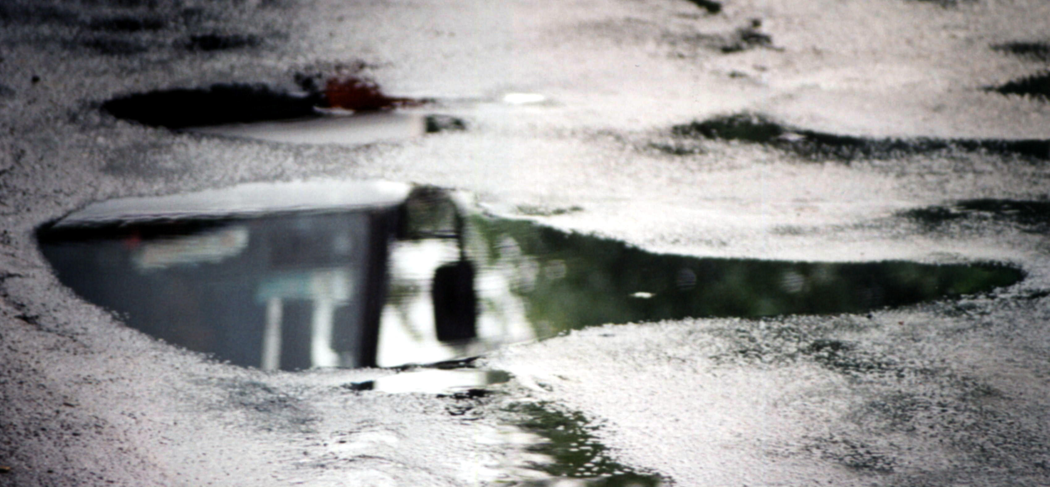 A puddle in an asphalt street.